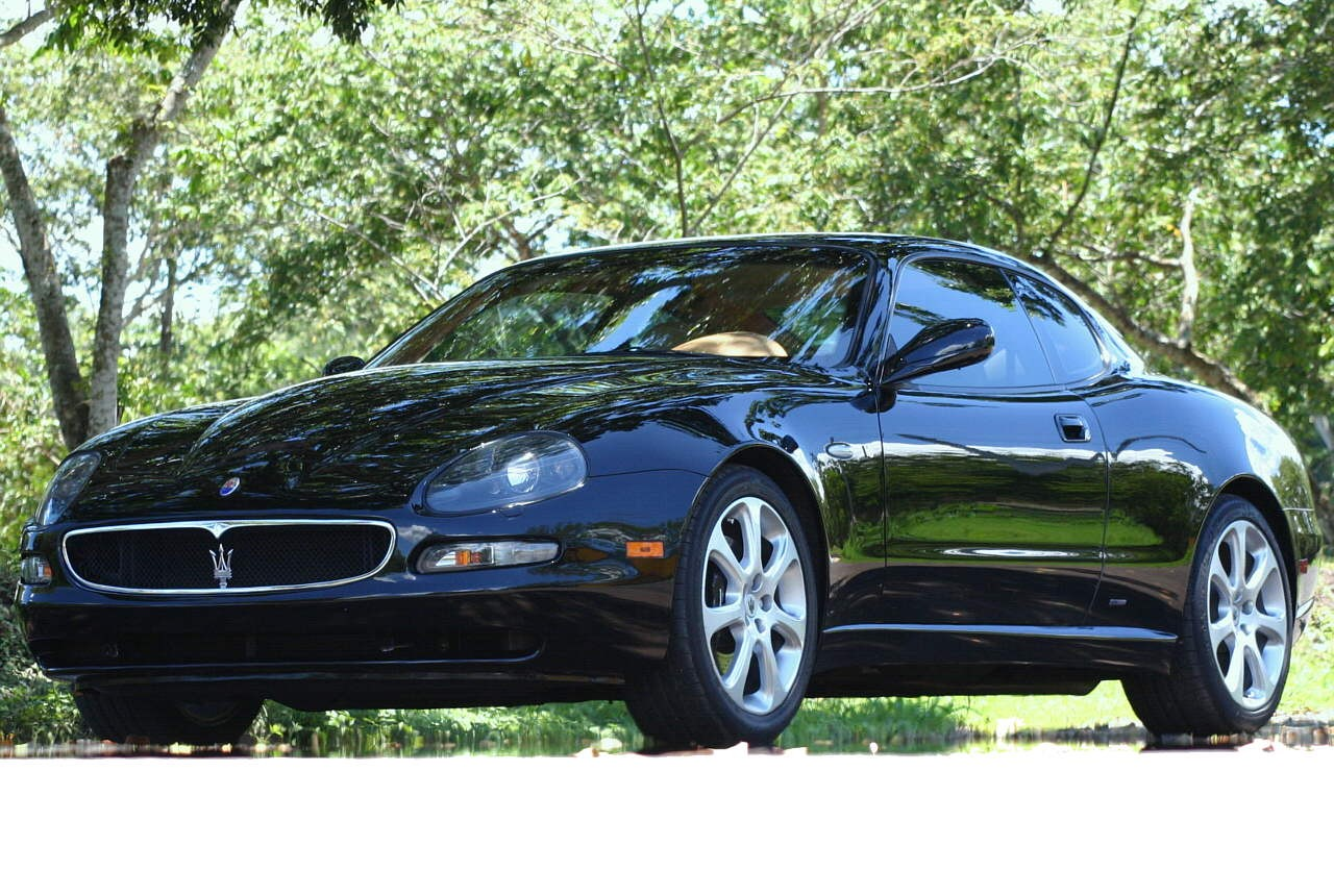 Maserati Coupe - black